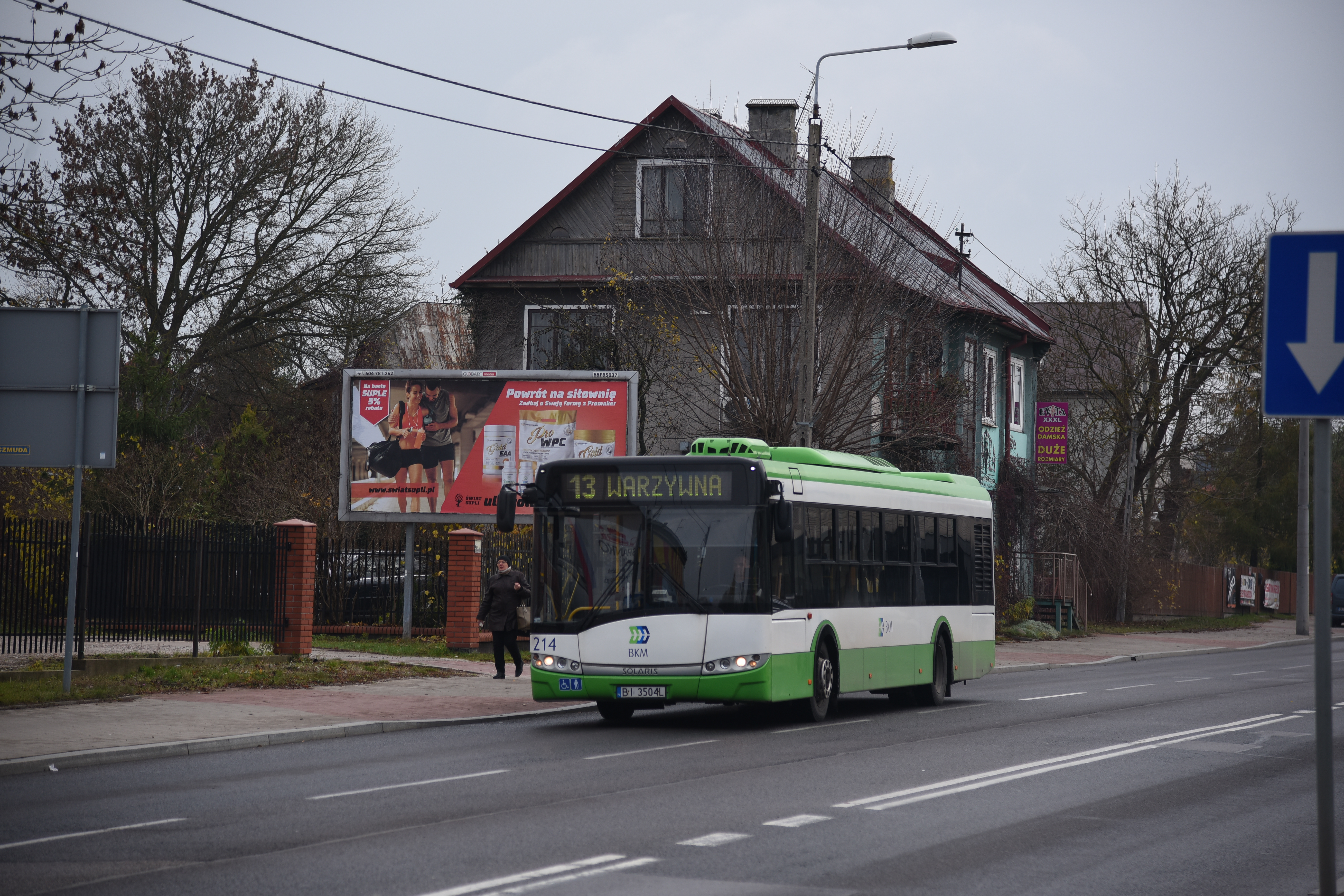 Komunalny Zakład Komunikacyjny Bialystok